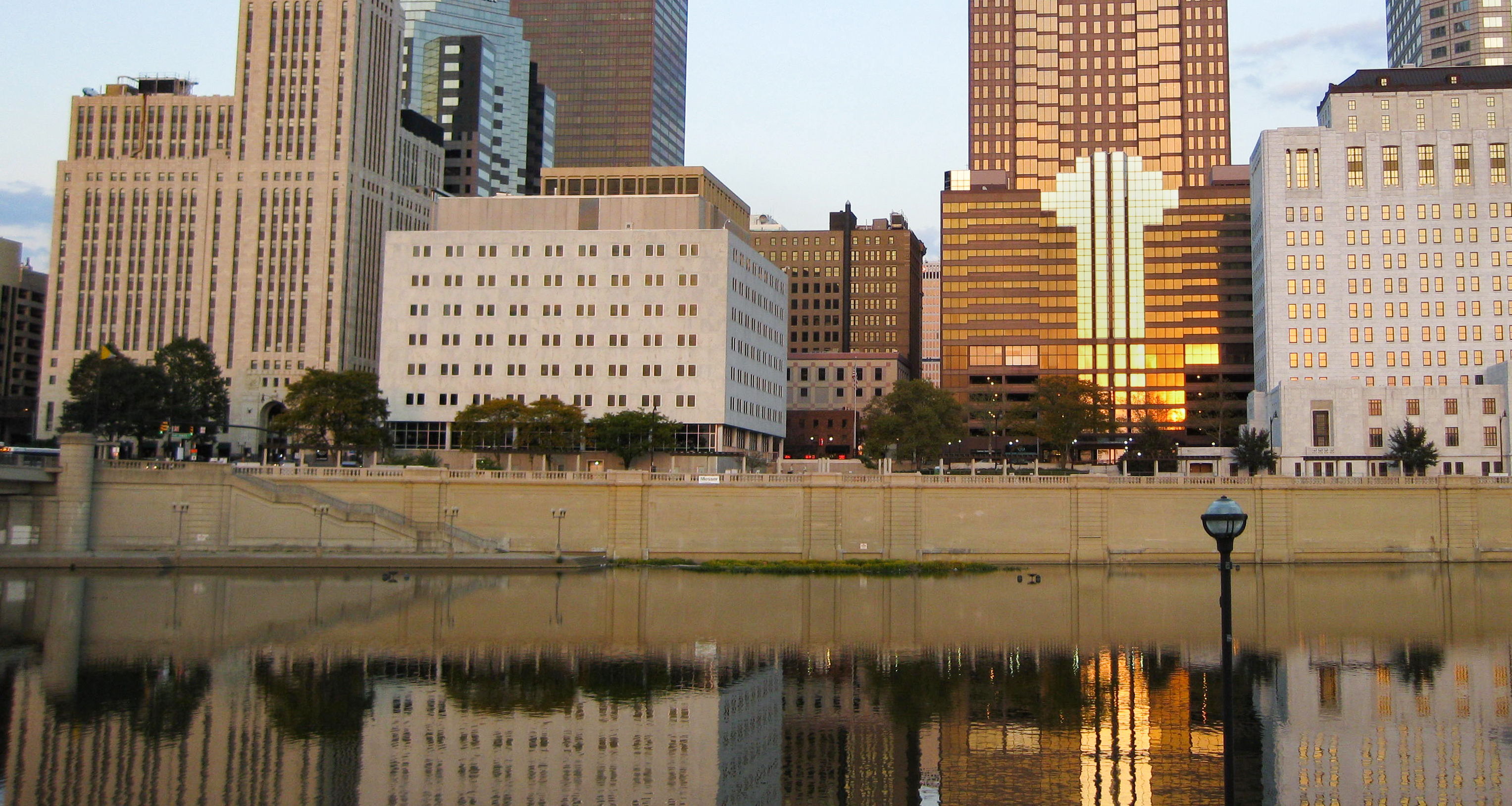 In Columbus, Ohio.